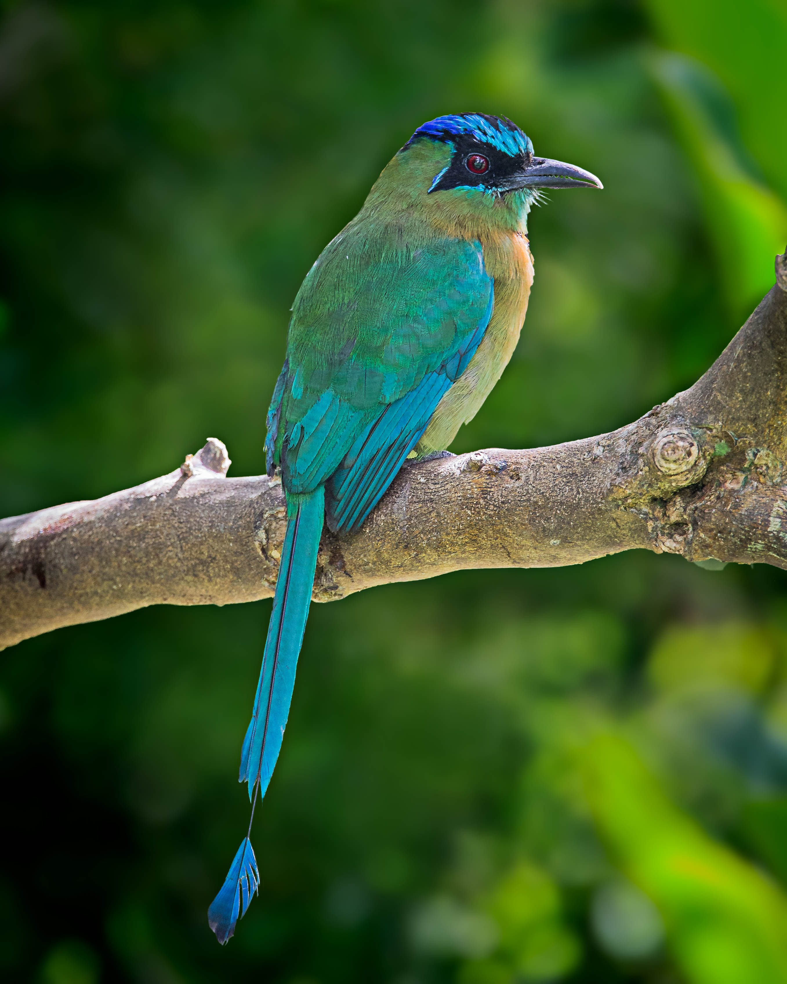 Couldn't make up a name like that!!! Taken in Costa Rica!